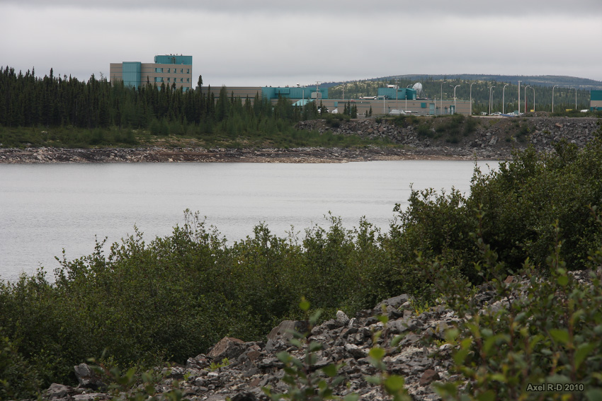 The Hydro-Québec administrative and residential center built near the Brisay generating station.